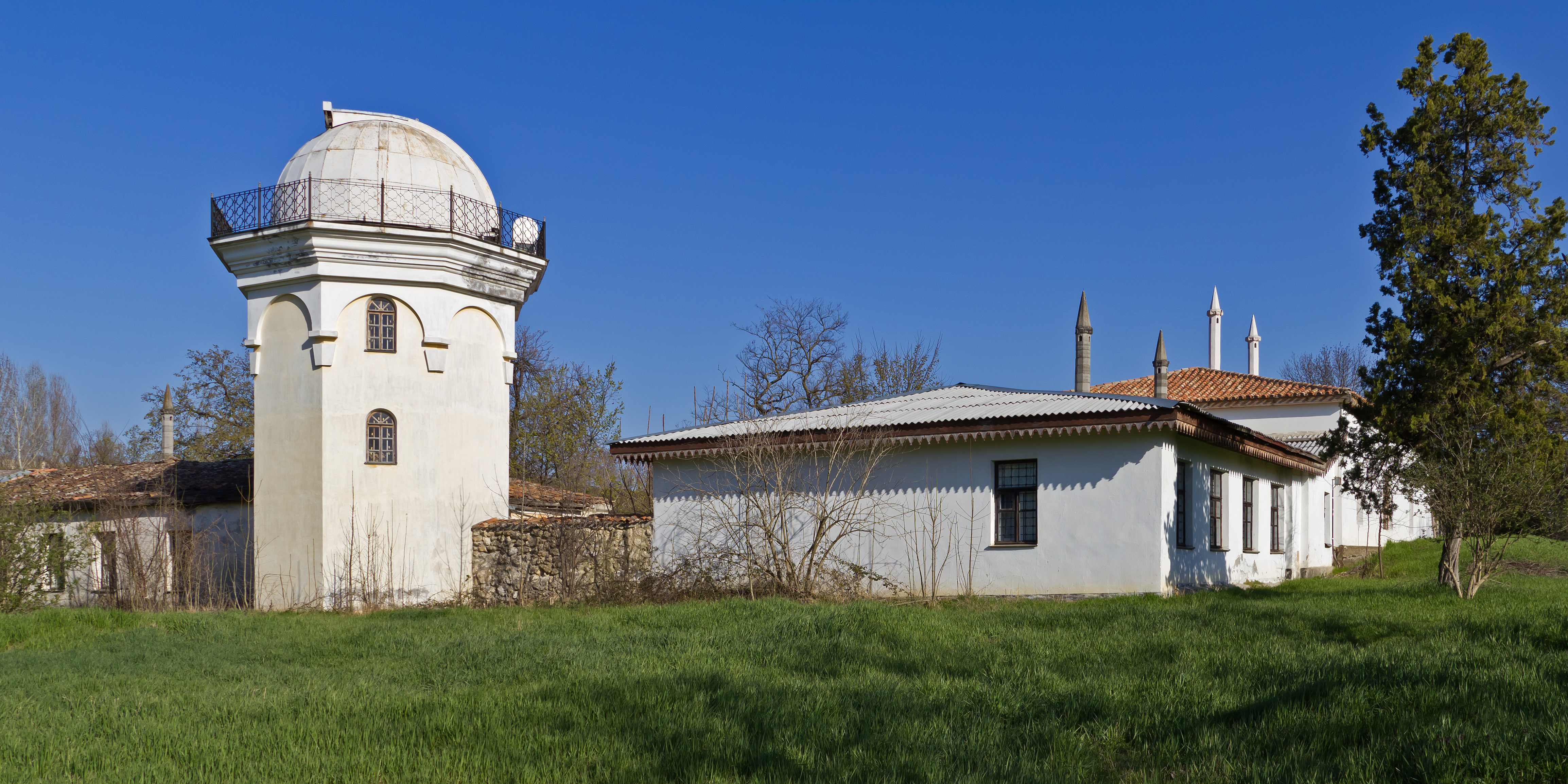 The Peter Simon Pallas House in the botanical garden in Simferopol, Crimean Peninsula.